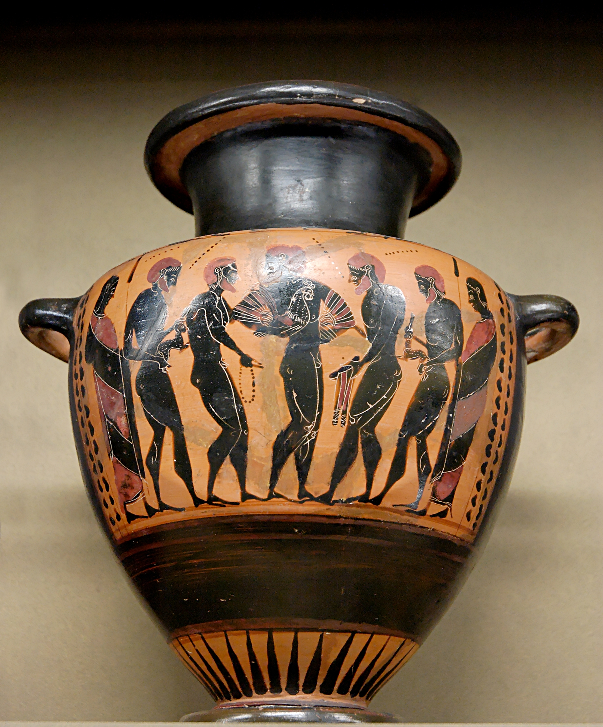 Pederastic courtship. Attic black-figure hydria, ca. 530 BC.